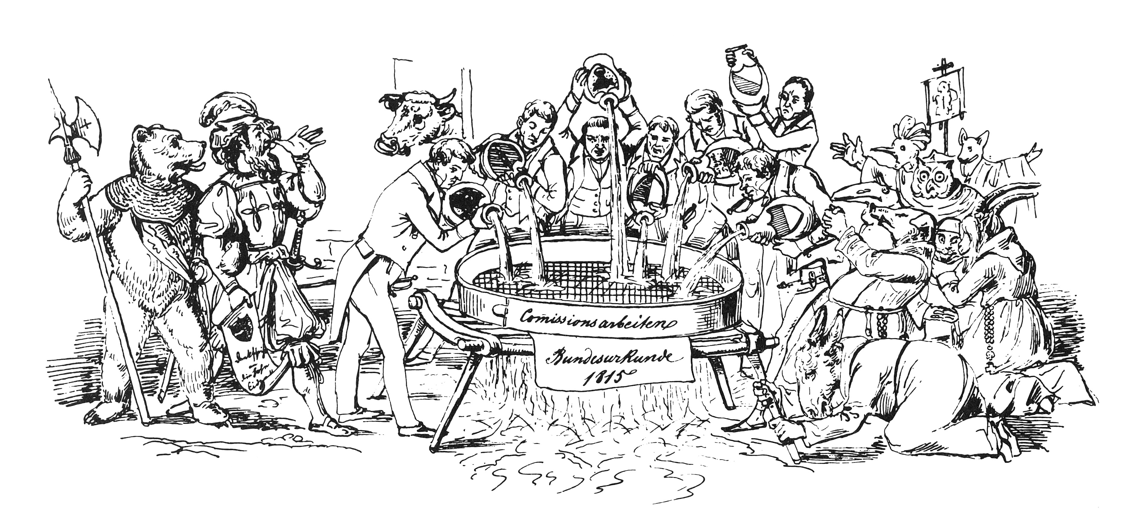 "So kann es nicht zur Revision kommen": Cartoon illustrating the drafting of a revision of the 1815 Swiss Federal Pact in 1833.